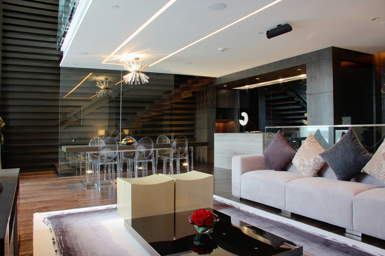 Avant Garde - One of the four themes in The Mansion at Sofitel Macau